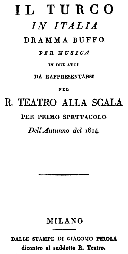 Gioachino Rossini - Il turco in Italia - titlepage of the libretto - Milan 1814